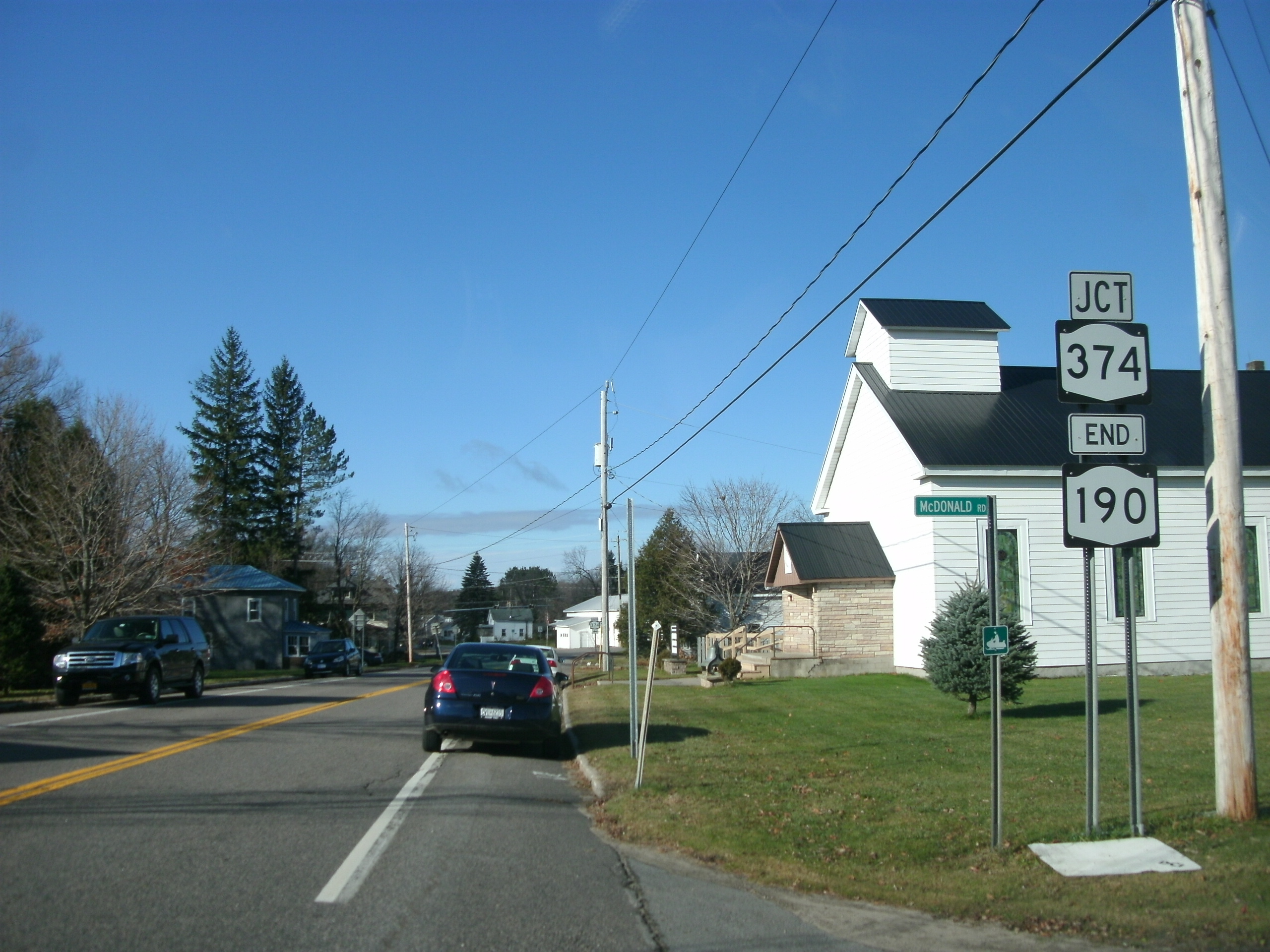 New York State Route 190 eastbound through the hamlet of Brainardsville, approaching its junction with New York State Route 374.